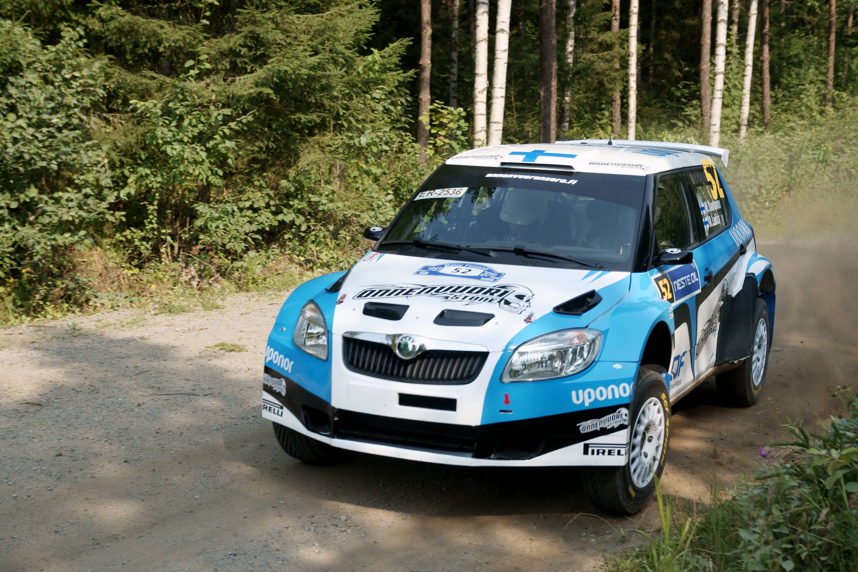 Matti Rantanen driving at Rannakylä shakedown in Muurame.